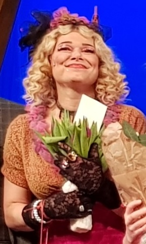 Nina Pressing as Lily St. Regis during Annie at Nöjesteatern in Malmö, Sweden.